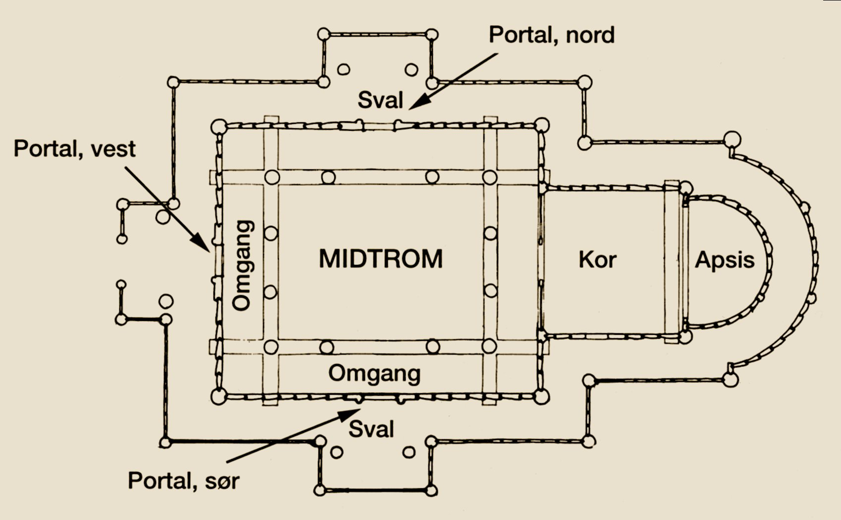 Floor plan of a stave church, drawing by Håkon Christie